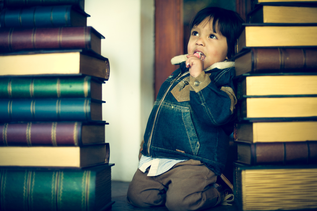 A boy between two piles of books.